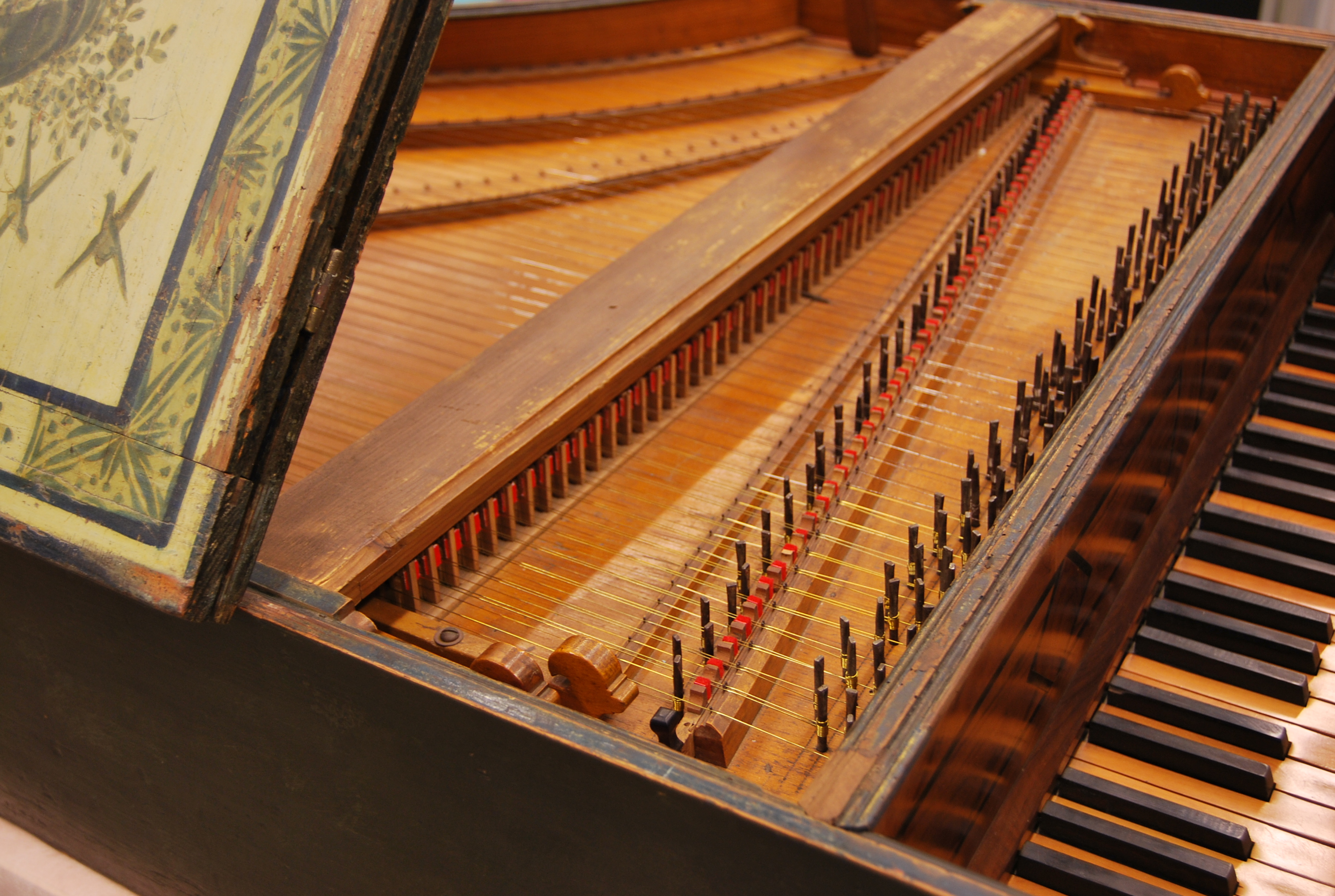 Harpsichord detail, Christian Zell, MDMB 418, Museu de la Música de Barcelona